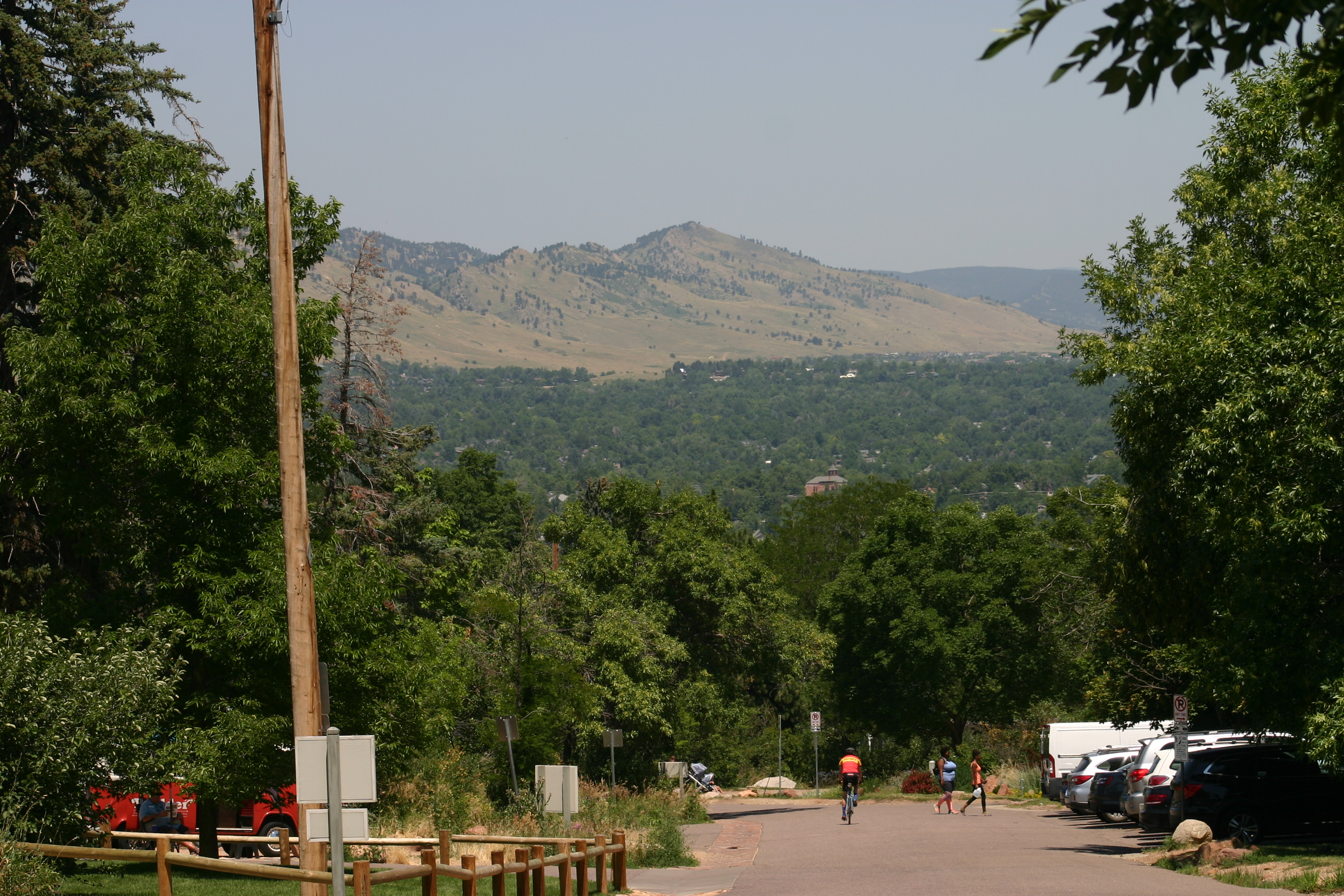 A picture of the mountains in Colorado where Nicole Anona Banowetz is from